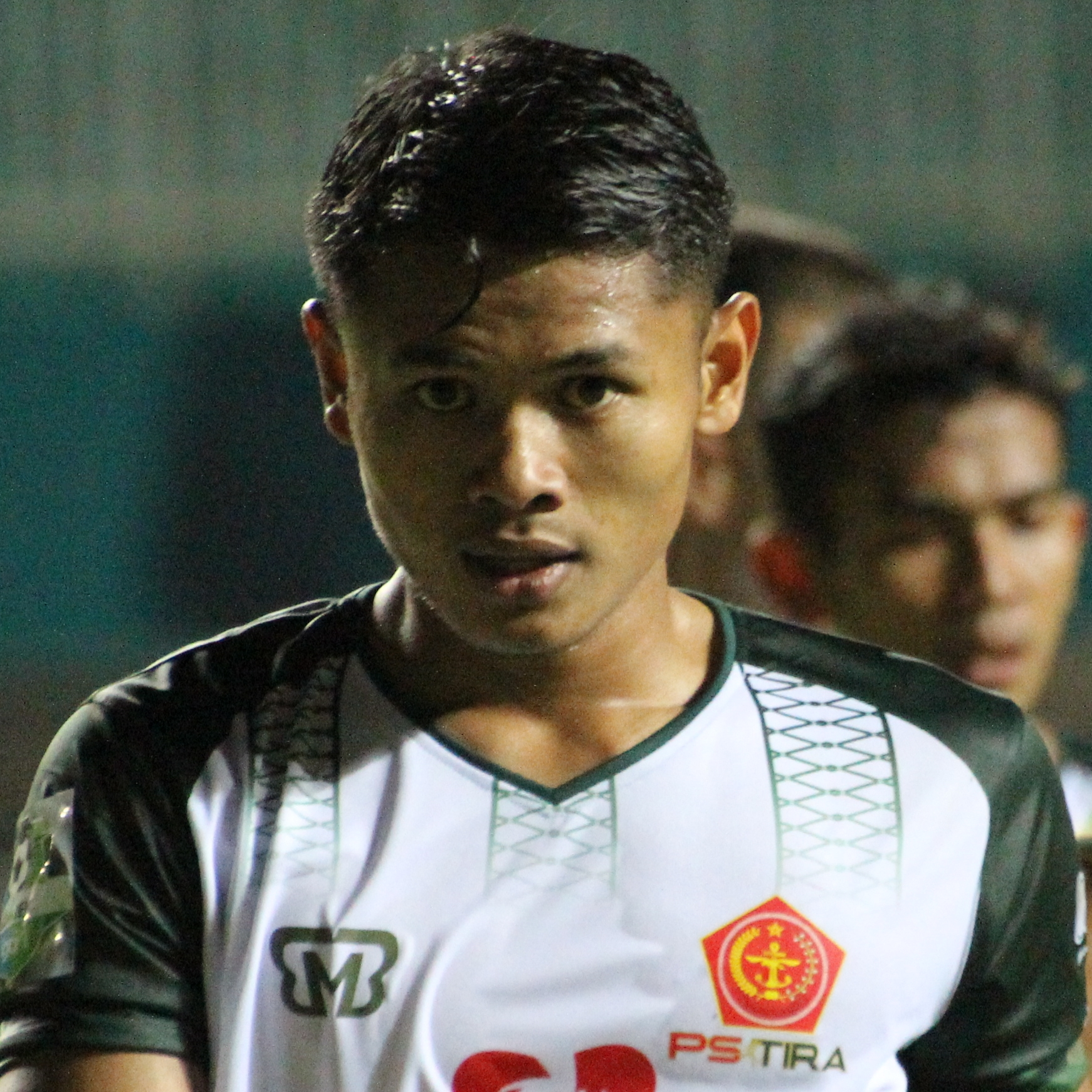 PS Tira, Dimas Drajad